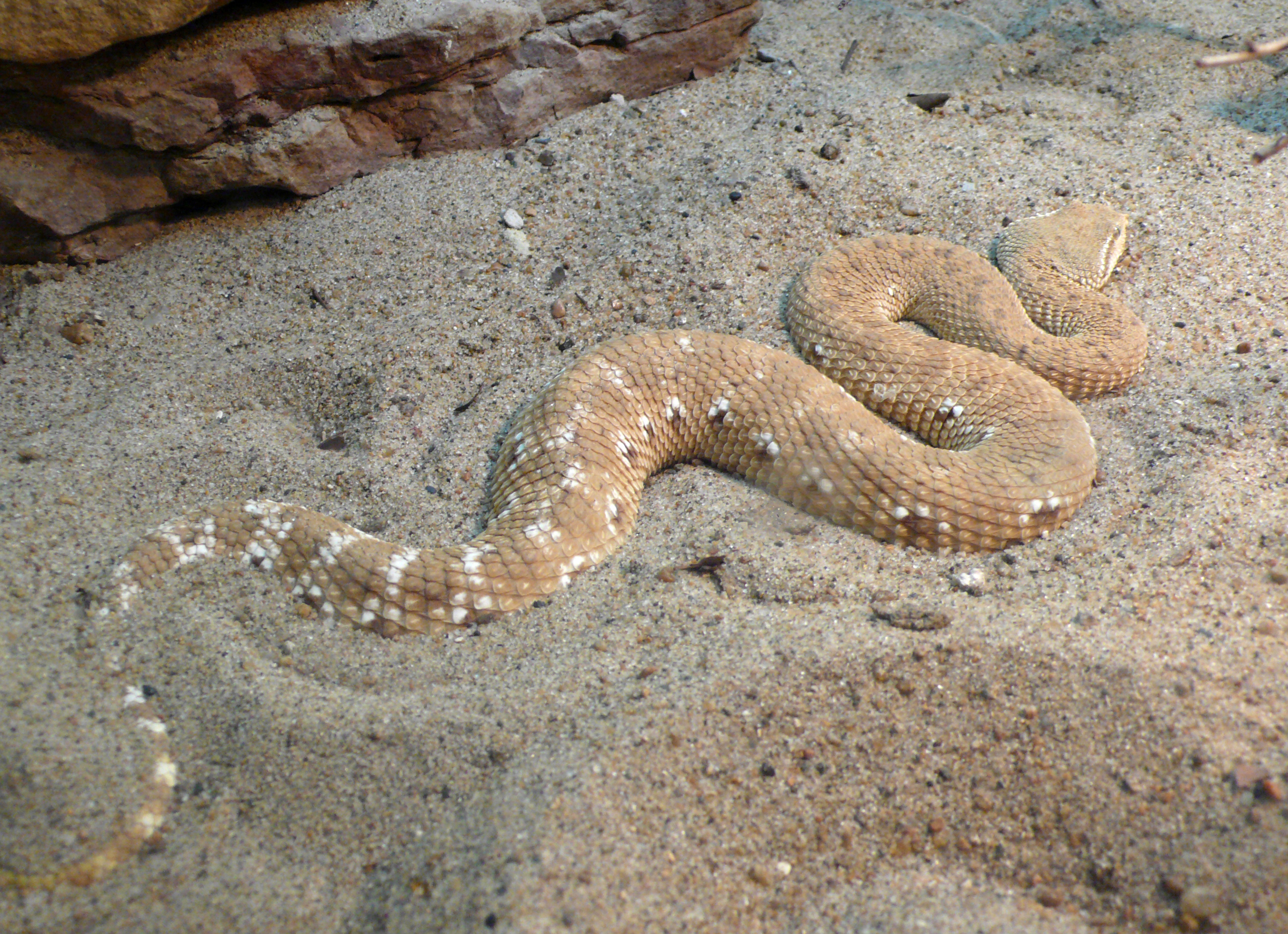 Leaf-nosed viper (Eristicophis macmahonii)